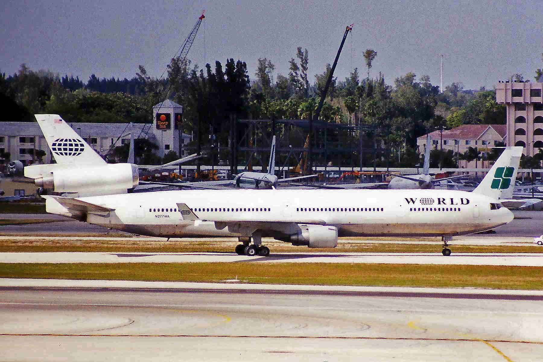 A picture of an airplane